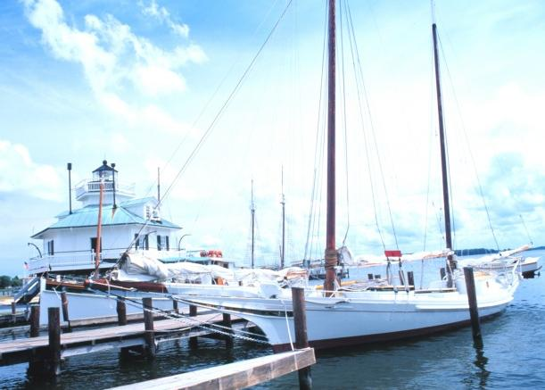 "The Edna Lockwood tied up at the Chesapeake Bay Maritime Museum, with the Hooper Strait Light in the background.